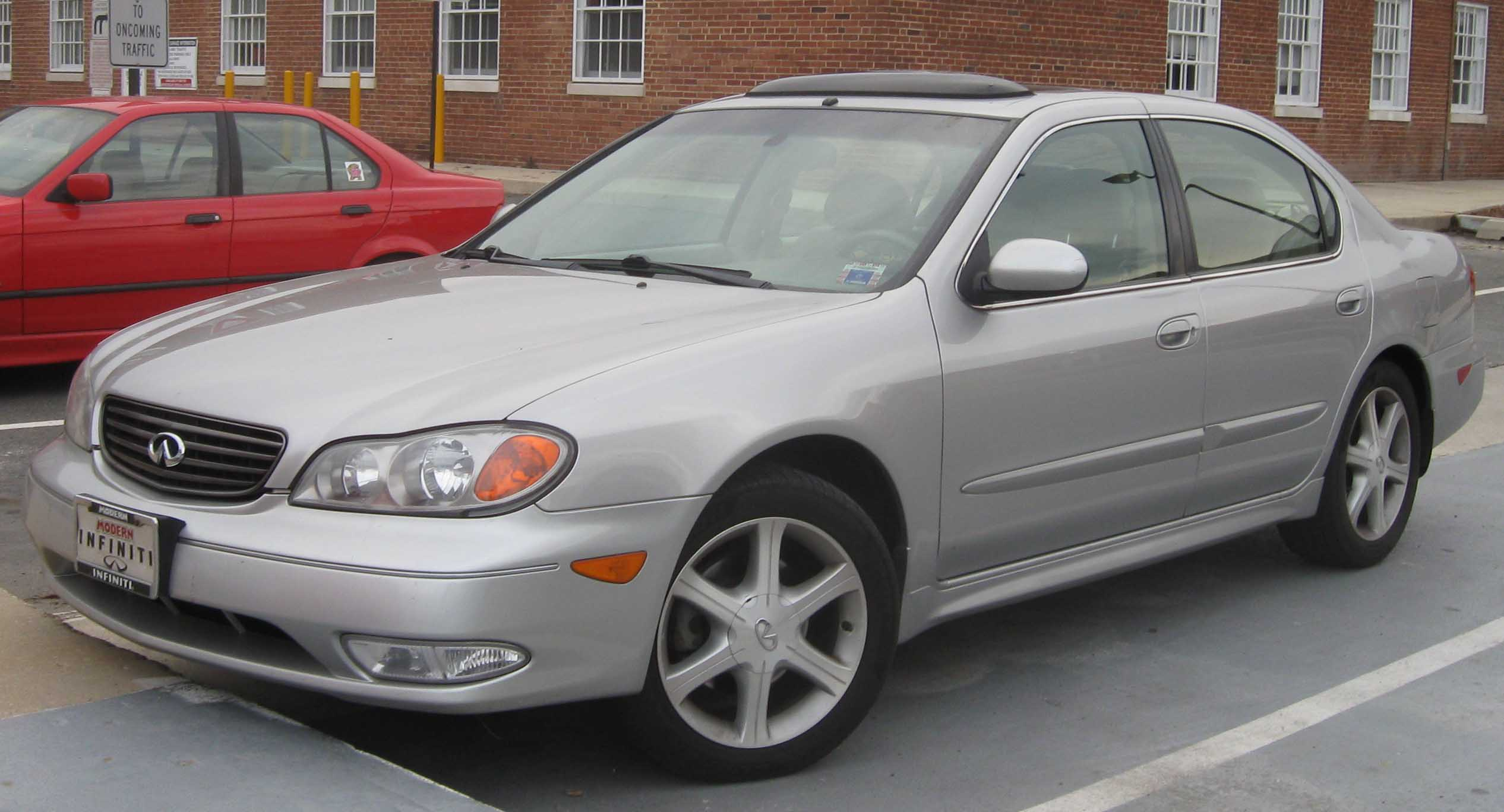 2002-2004 Infiniti I35 photographed in College Park, Maryland, USA.